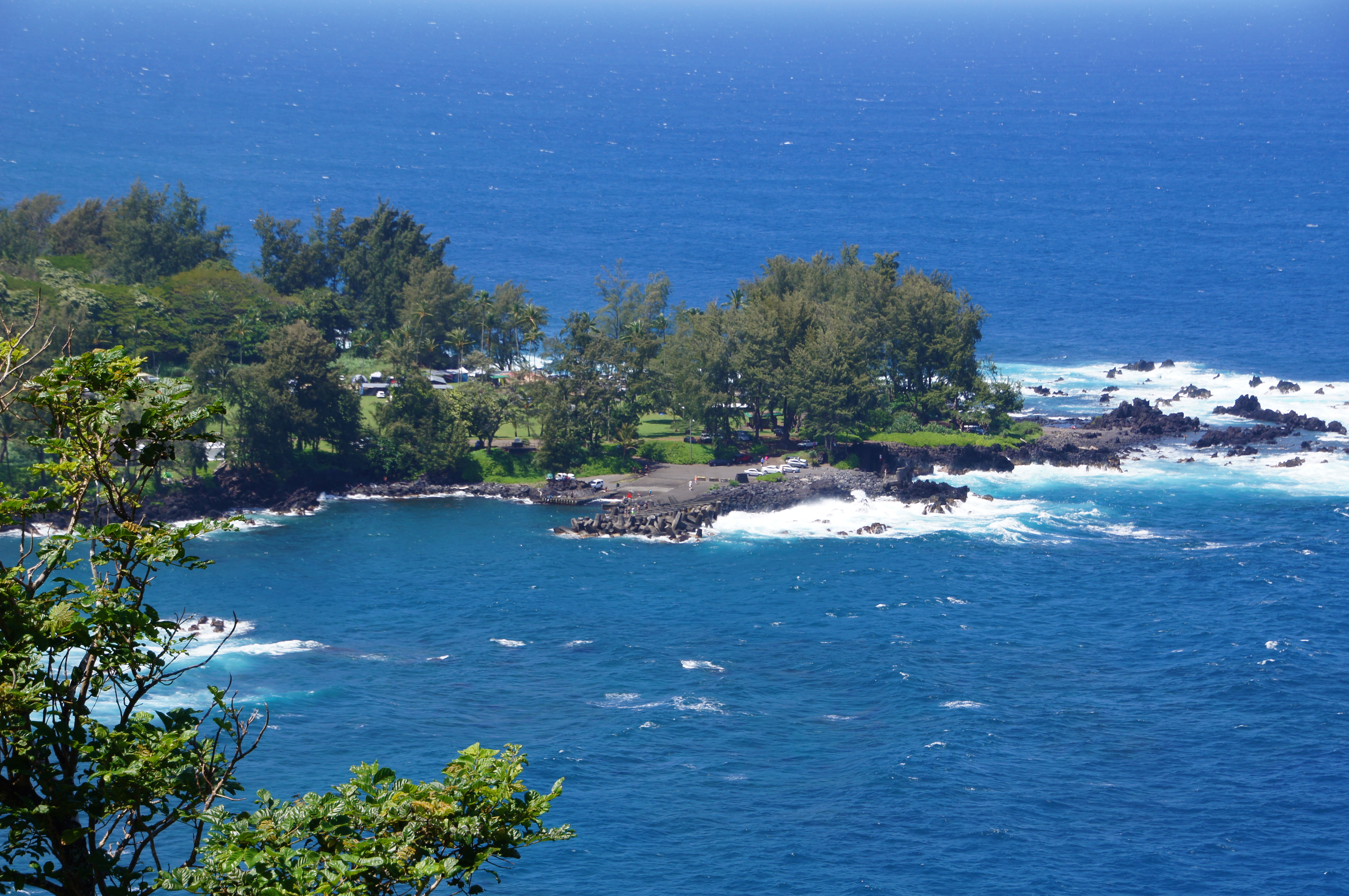 Laupahoehoe Point, Big Island, Hawaii. Viewing the Point from the highway near the signage show below.